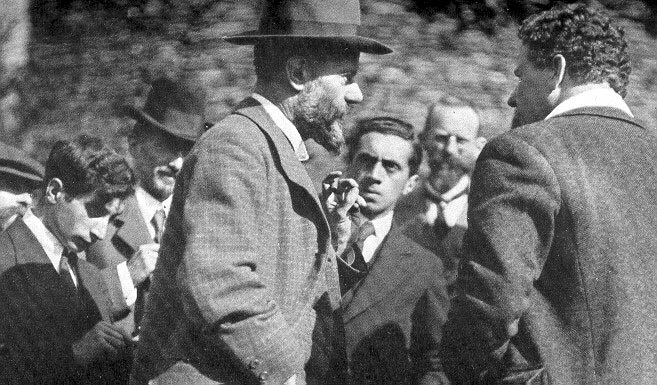 Max Weber 1917 at the Lauensteiner Tagung. In background: Ernst Toller